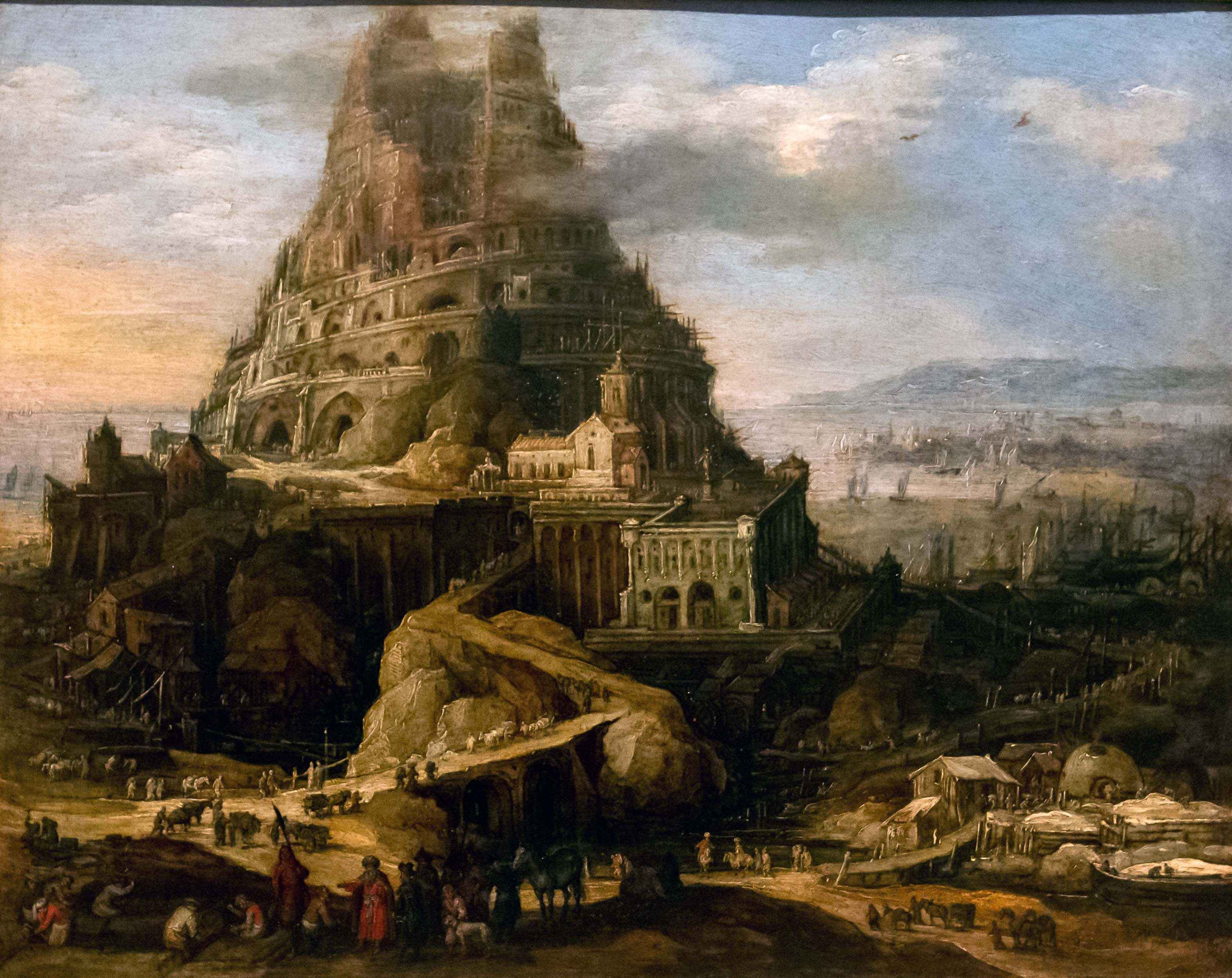 Genesis(11, 4): And they said, Go to, let us build us a city and a tower, whose top may reach unto heaven; and let us make us a name, lest we be scattered abroad upon the face of the whole earth..